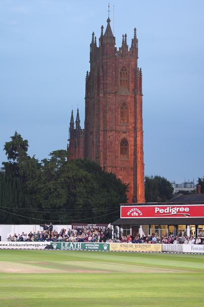 The Parish Church of St. James, Taunton rising up from behind the cricket ground